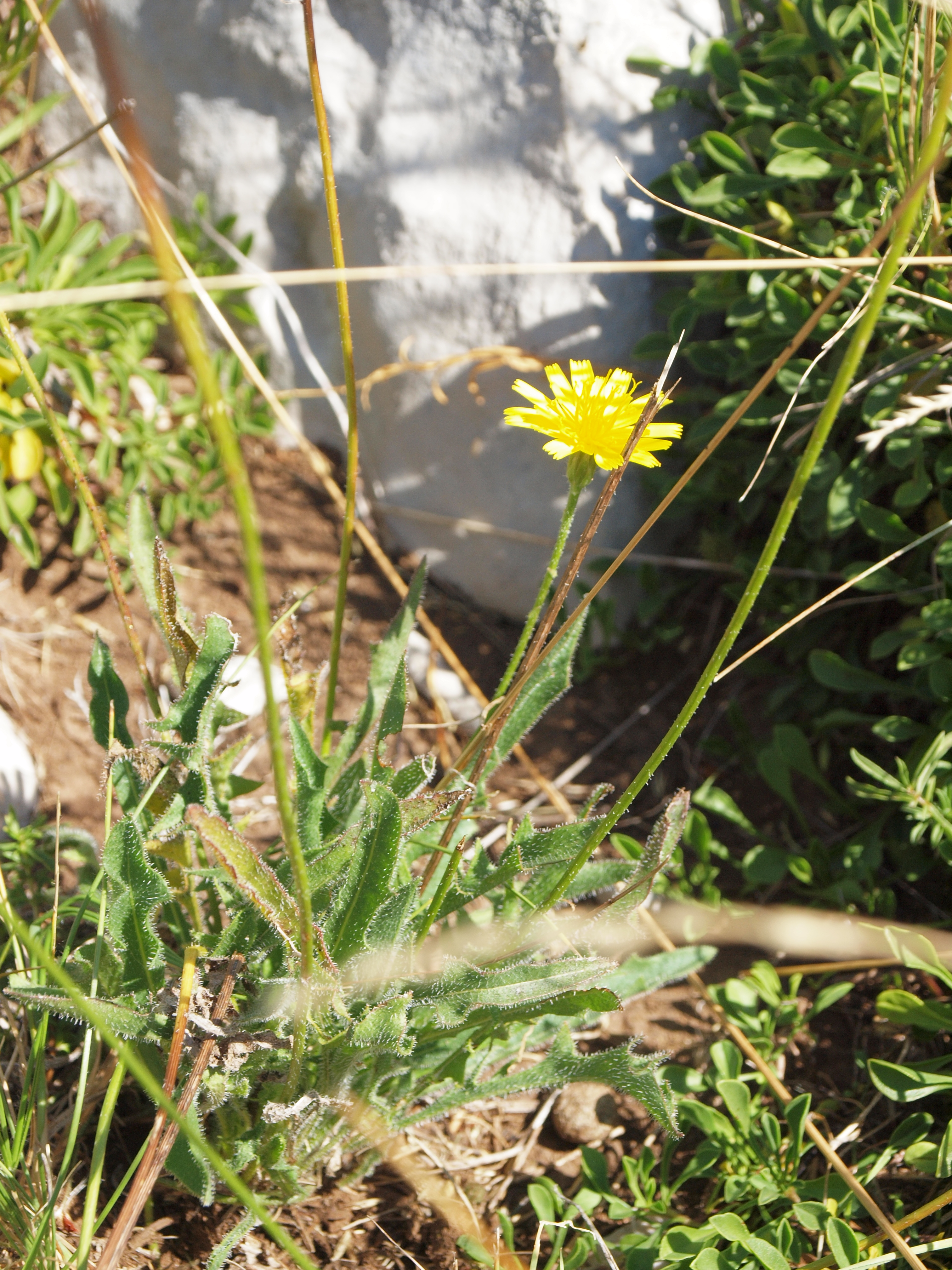 Leontodon crispus Bijela gora leg P.Cikovac